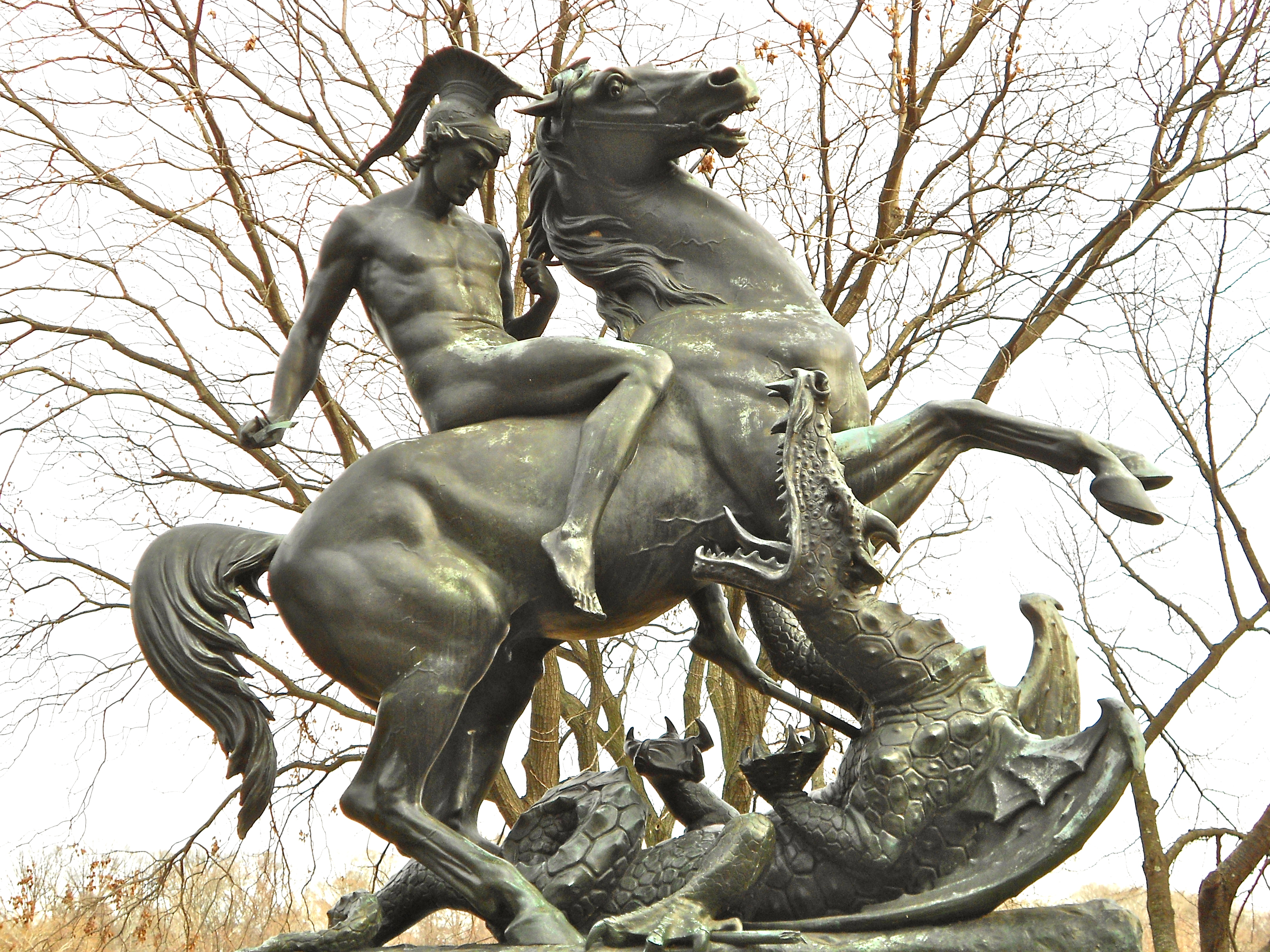 Statue of St. George and the Dragon in Philadelphia, from 1800's. Unknown sculptor.